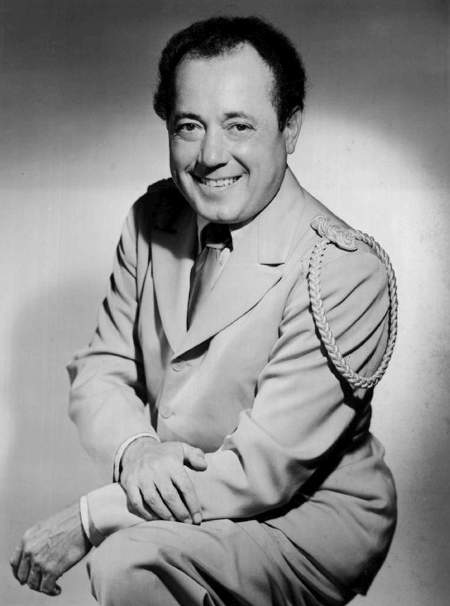 Photo of musician, composer and bandleader Paul Lavelle from the radio program Cities Service Band of America.